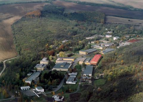 Iklad, Hungary, aerialphotography